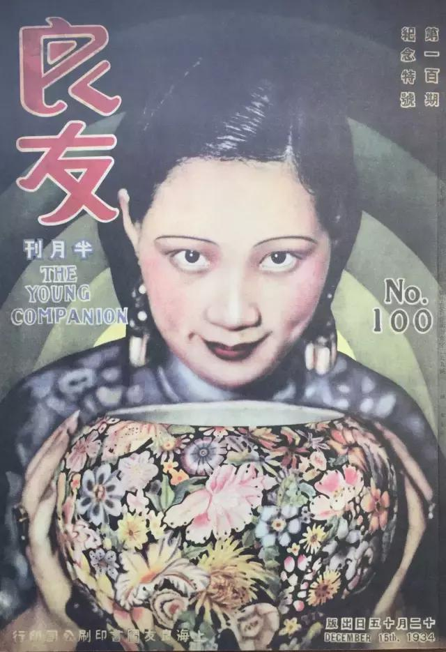 Cover of Liangyou magazine, #100, featuring Xu Lai (徐来).